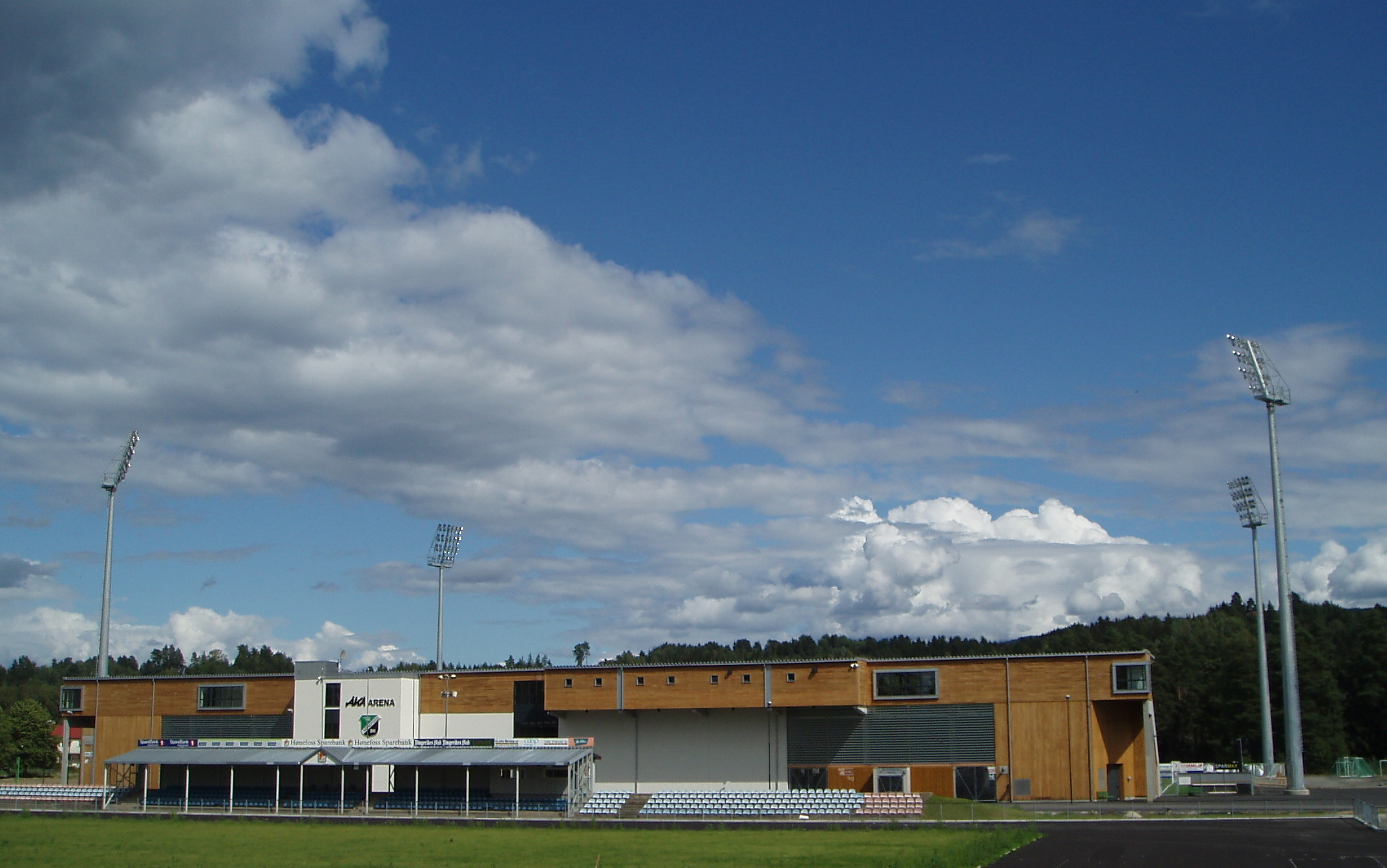 AKA Arena, the football stadium of Hønefoss Ballklubb in Norway.